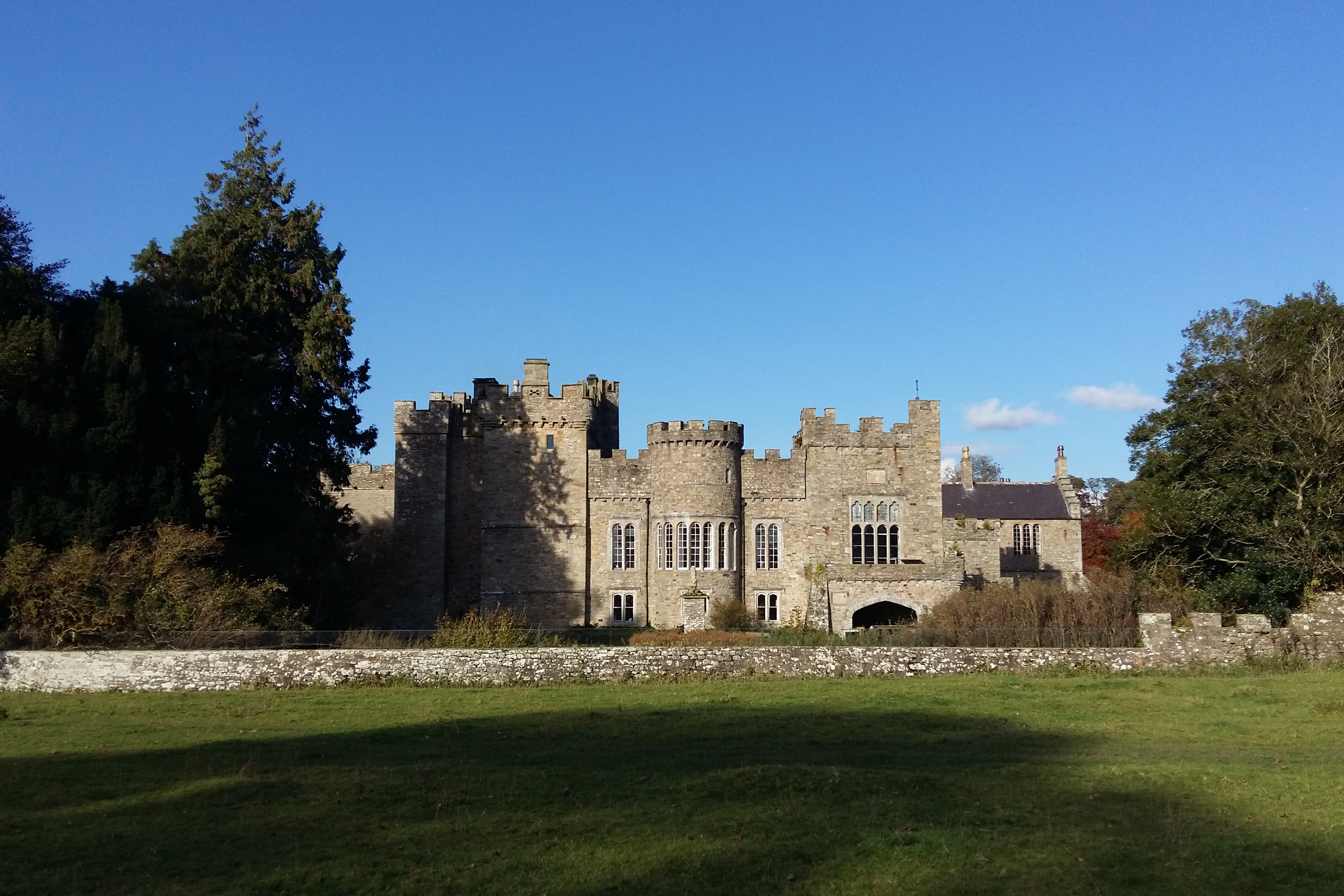 Featherstone Castle, a Grade I listed building, is a large Gothic style country mansion situated on the bank of the River South Tyne about 3 miles (5 km) southwest of the town of Haltwhistle in Northumberland, England (grid reference NY674610).